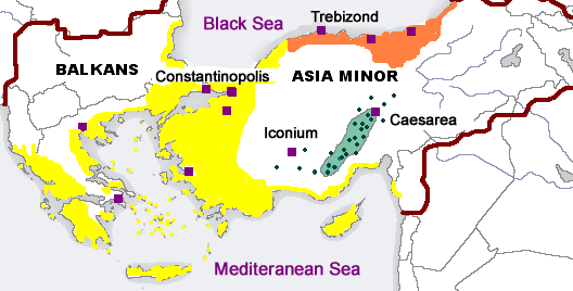 Distribution of Greek dialects beginning in the late Byzantine Empire, 12-15th centuries. Yellow, late Byzantine Koine Greek (Medieval Greek), which formed the foundation of Modern Greek; orange, Pontic Greek; green Cappadocian Greek. Labels are in English. The purple borders indicate the approximate maximum extent of the area where native speakers of Medieval Greek constituted the majority population.